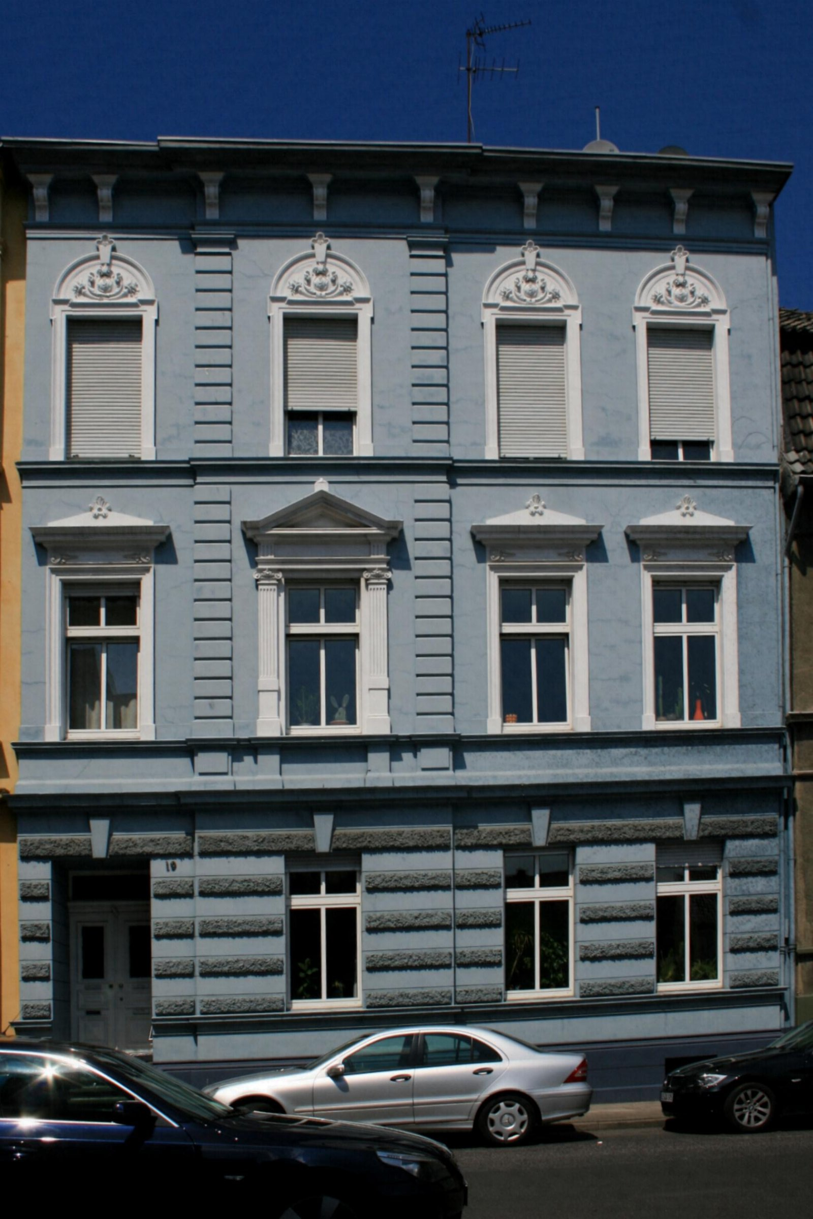 Cultural heritage monument No. F 034 in Mönchengladbach